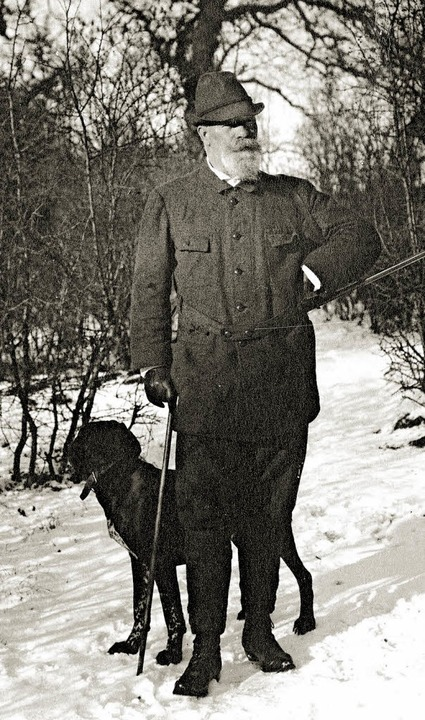 Ferdinand von Raesfeld († 1929) in later years